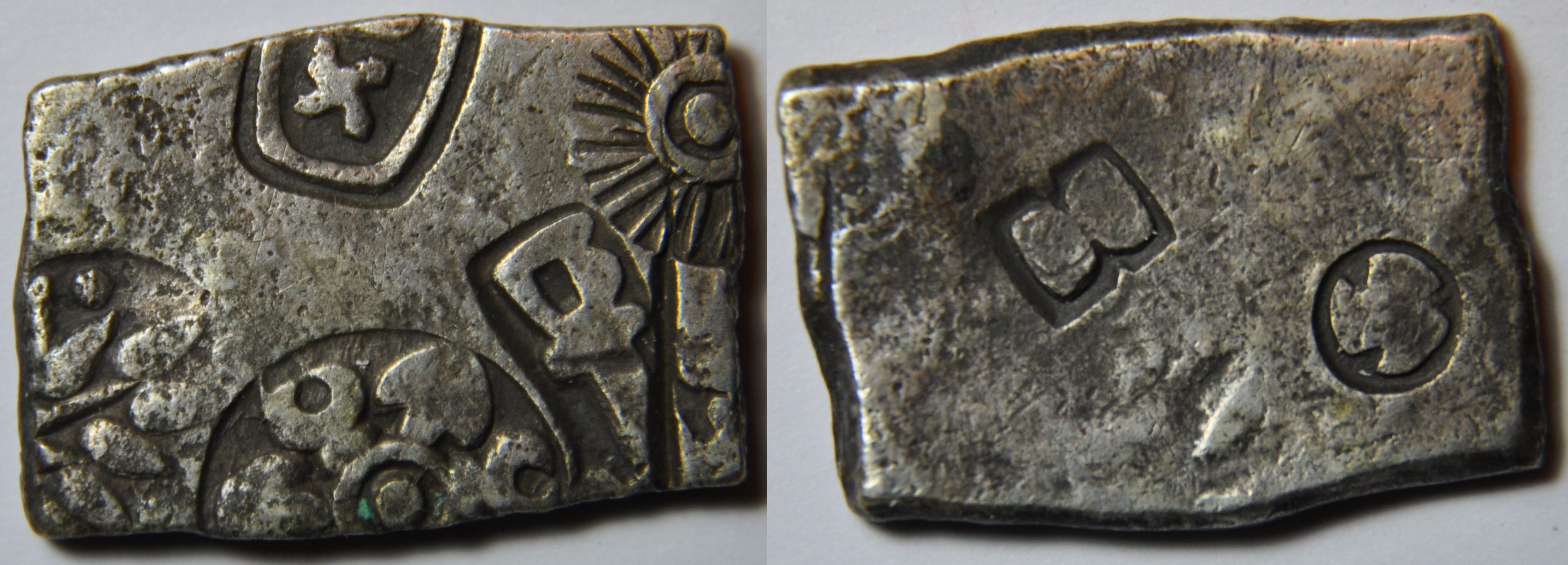 Une monnaie en argent de 1 karshapana du roi Pushyamitra Sunga (185-149 BC) de la dynastie Sunga (185-73 BC), atelier de Vidisa( ?). A/ 5 symboles dont un soleil R/ 2 symboles Dimensions : 19,7 x 13,87 mm Poids : 3,5 g. Référence : Mitchiner ACW 4325 Coins of rulers of India A silver coin of 1 karshapana of King Pushyamitra Sunga (185-149 BC) of the Sunga dynasty (185-73 BC), workshop of Vidisa (?). A / 5 symbols including a sun R / 2 symbols Dimensions: 19.7 x 13.87 mm Weight: 3.5 g.